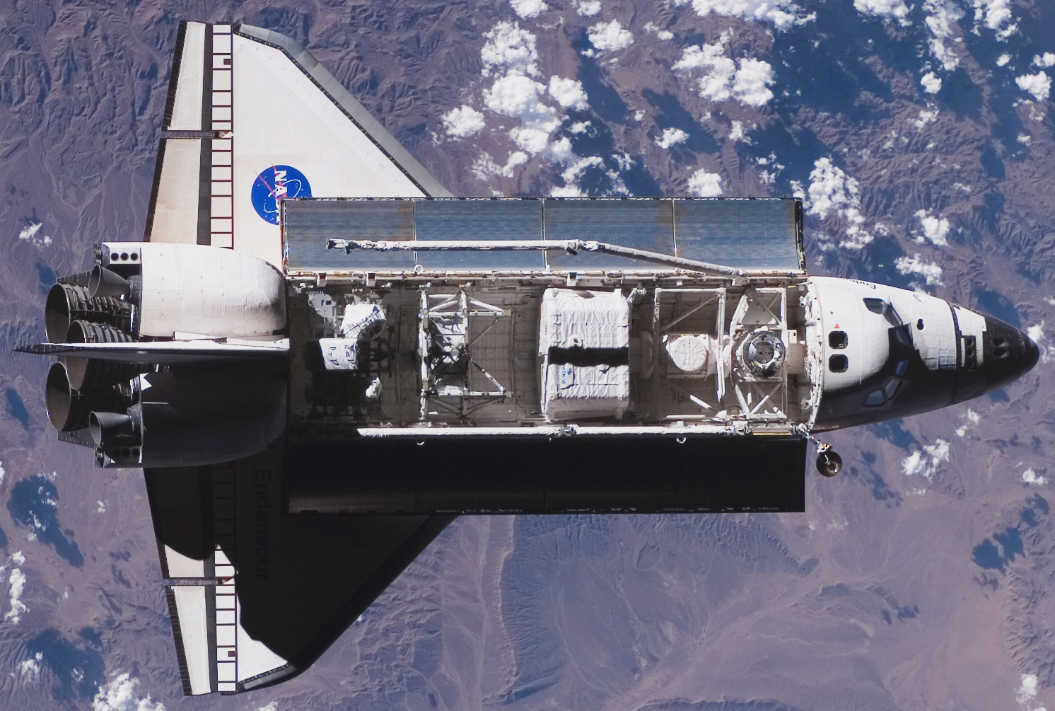 ISS015-E-21732 (10 Aug. 2007) --- This view of the Space Shuttle Endeavour, clearly shows its payload bay and upper surfaces. The image was photographed by one of the Expedition 15 crewmembers aboard the International Space Station shortly before the two vehicles docked in Earth orbit. Endeavour is contributing toward space station construction by delivering a third starboard truss segment, S5, and supplies inside the SPACEHAB module (in the center of the bay) and the external stowage platform 3.